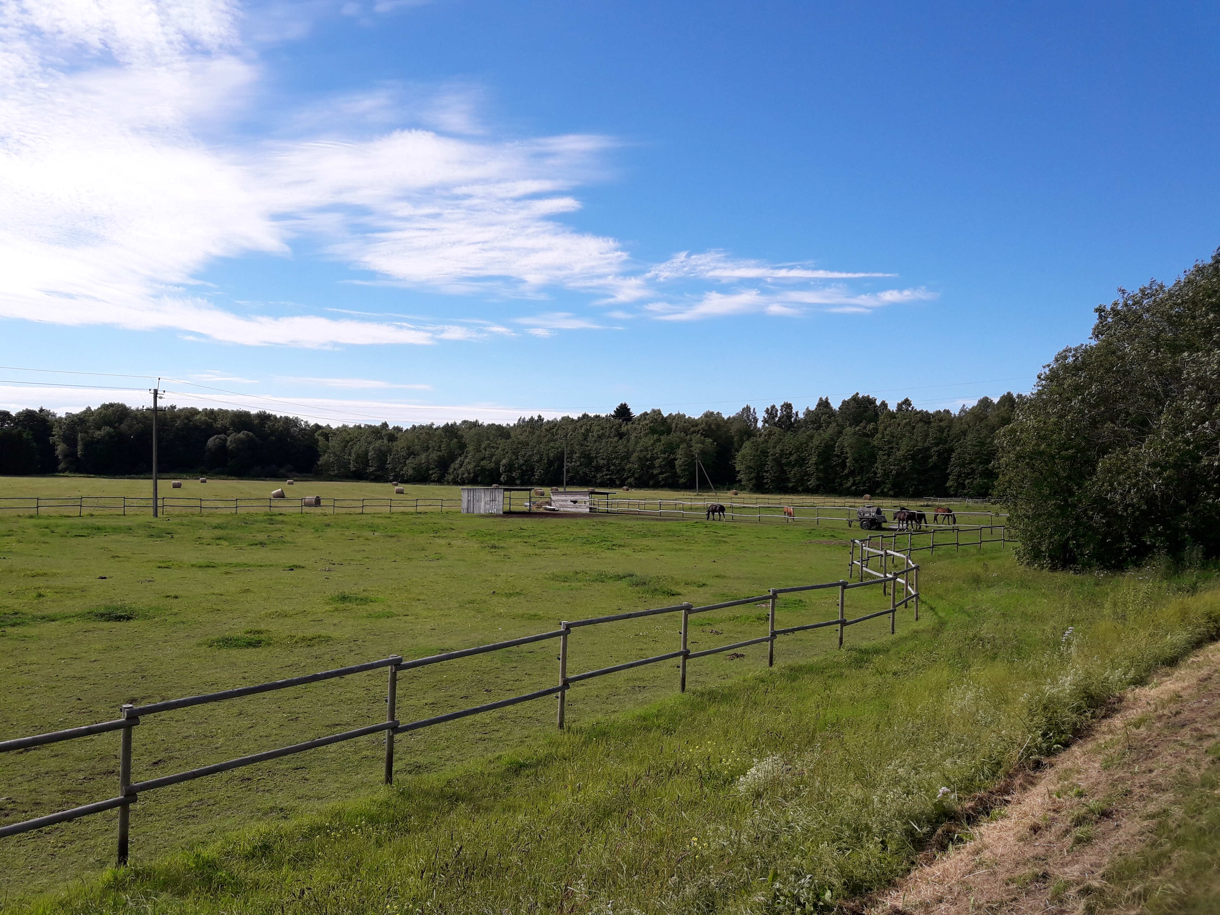 Landscape view of Alliku